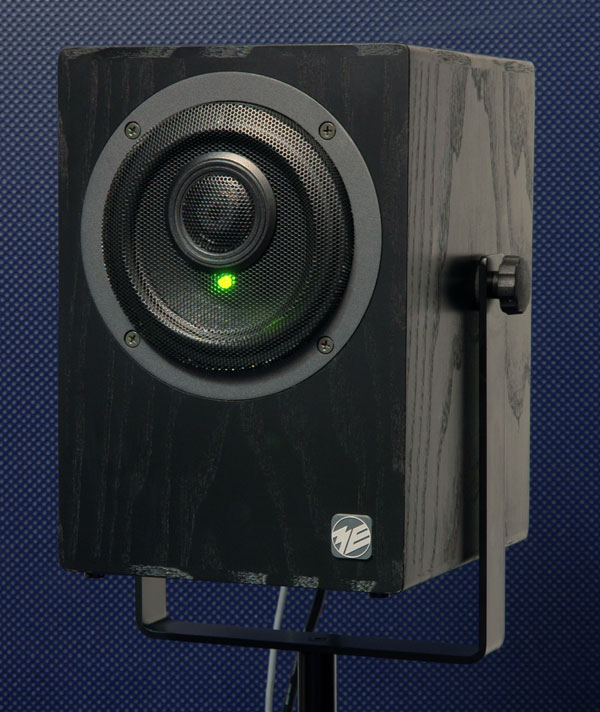 Professional loudspeaker ME Geithain RL-906